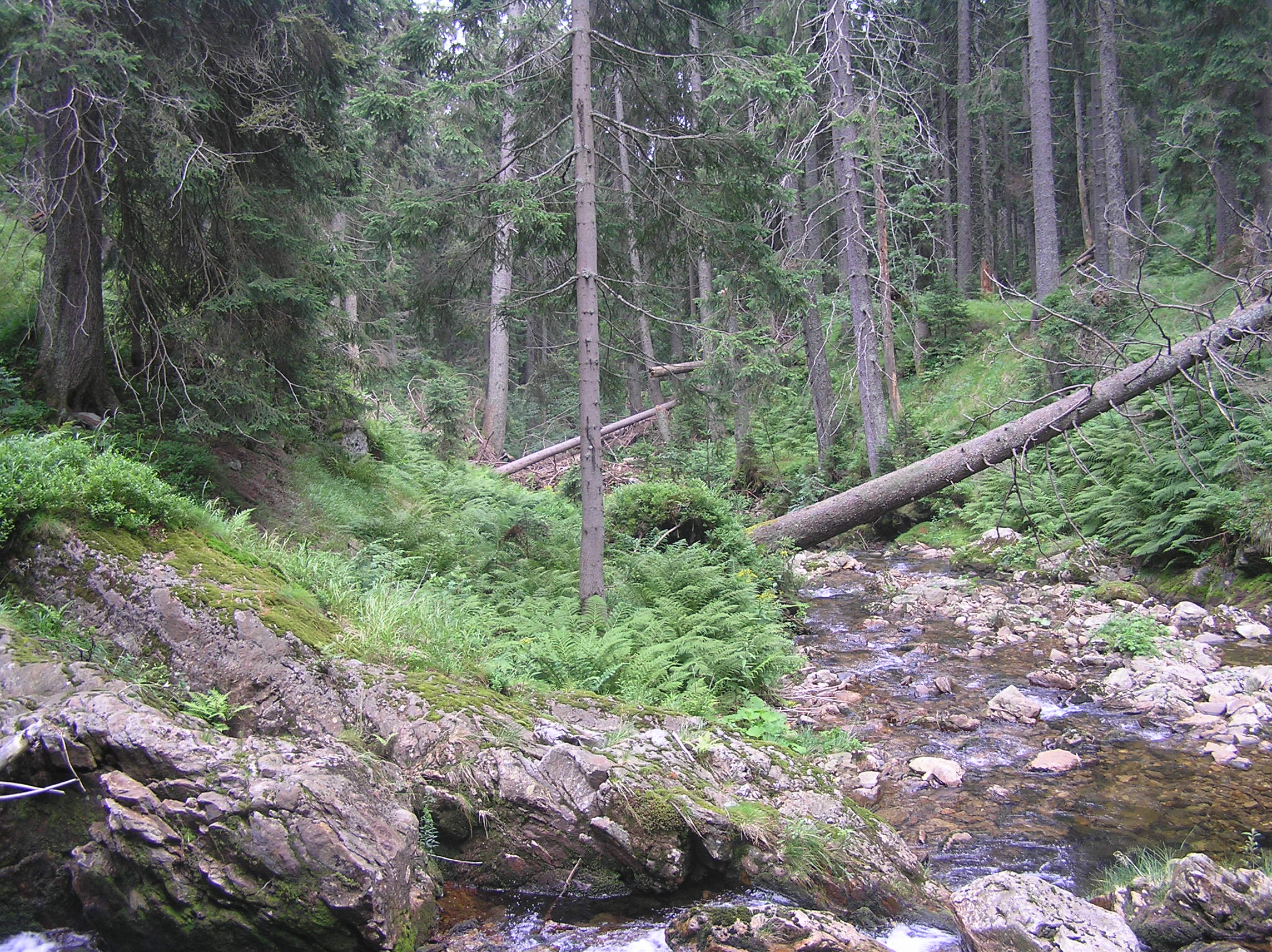 Modrý potok (creek), Krkonoše, Czech Republic